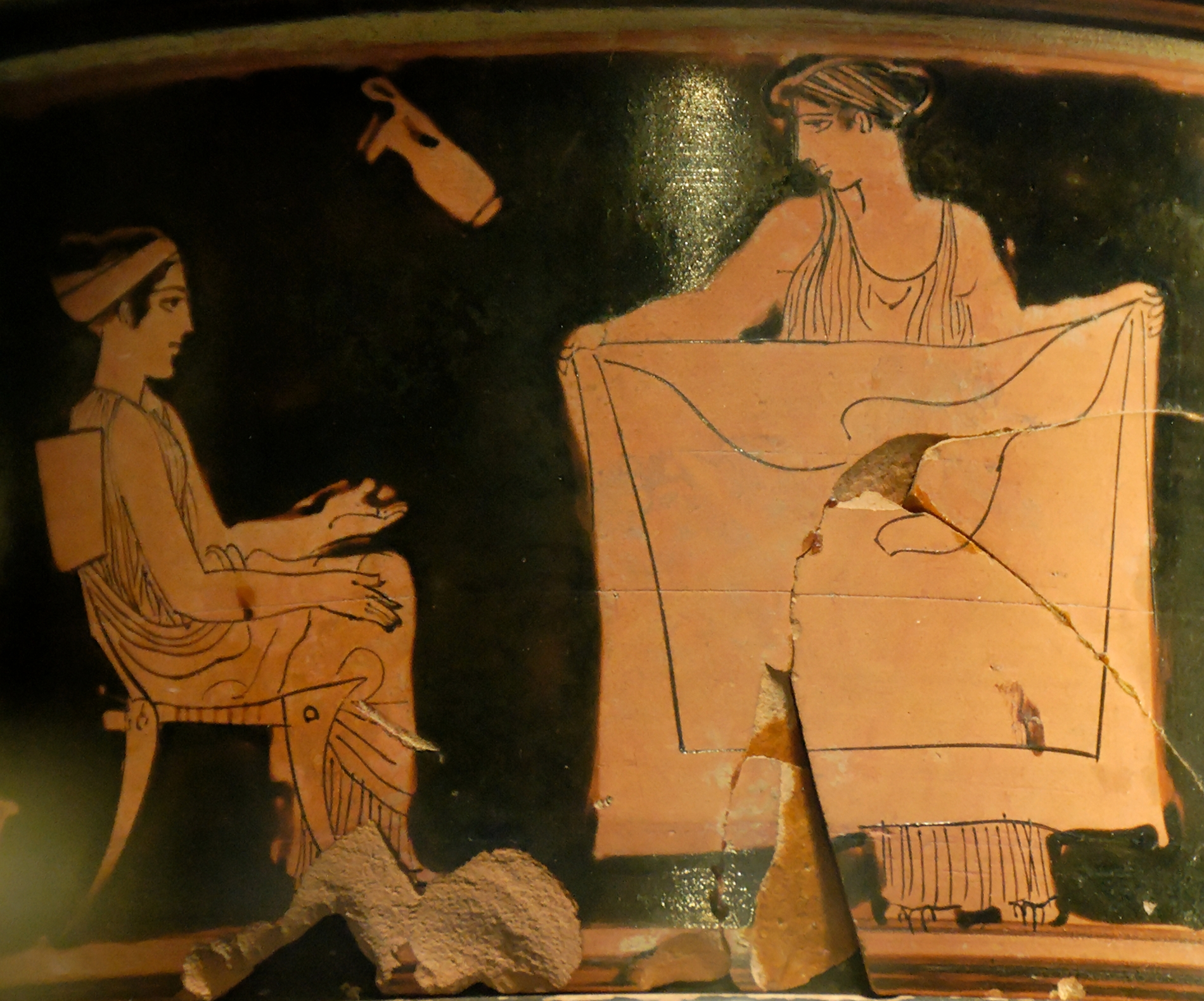 Gynaeceum scene. Attic red-figure pyxis, ca. 430 BC.